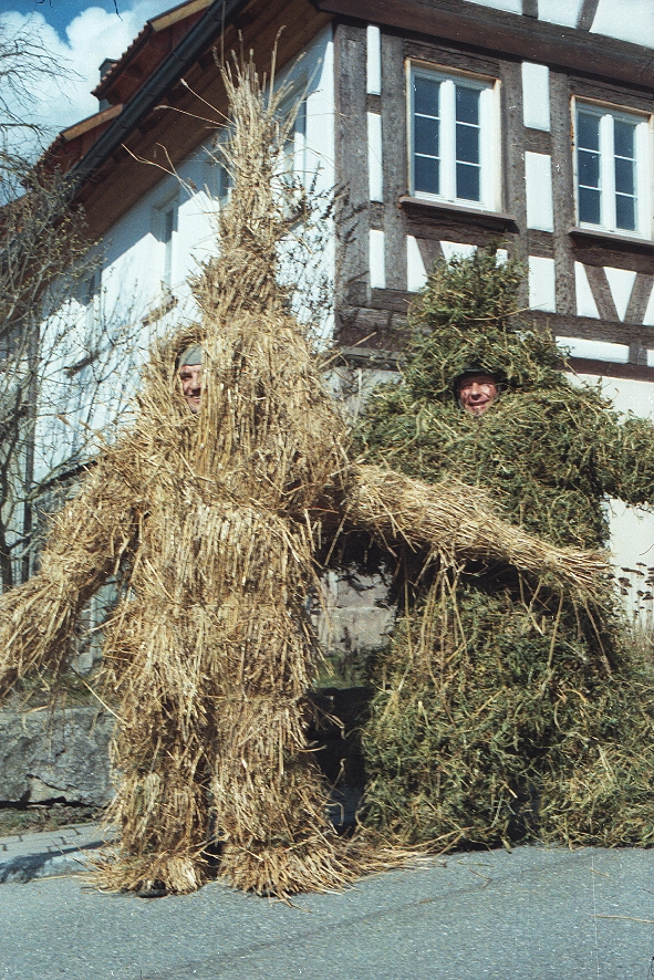 Picture of Bears in Straw of wheat and pea, 2000 carnival procession , Empfingen, Baden-Wuerttemberg, Germany